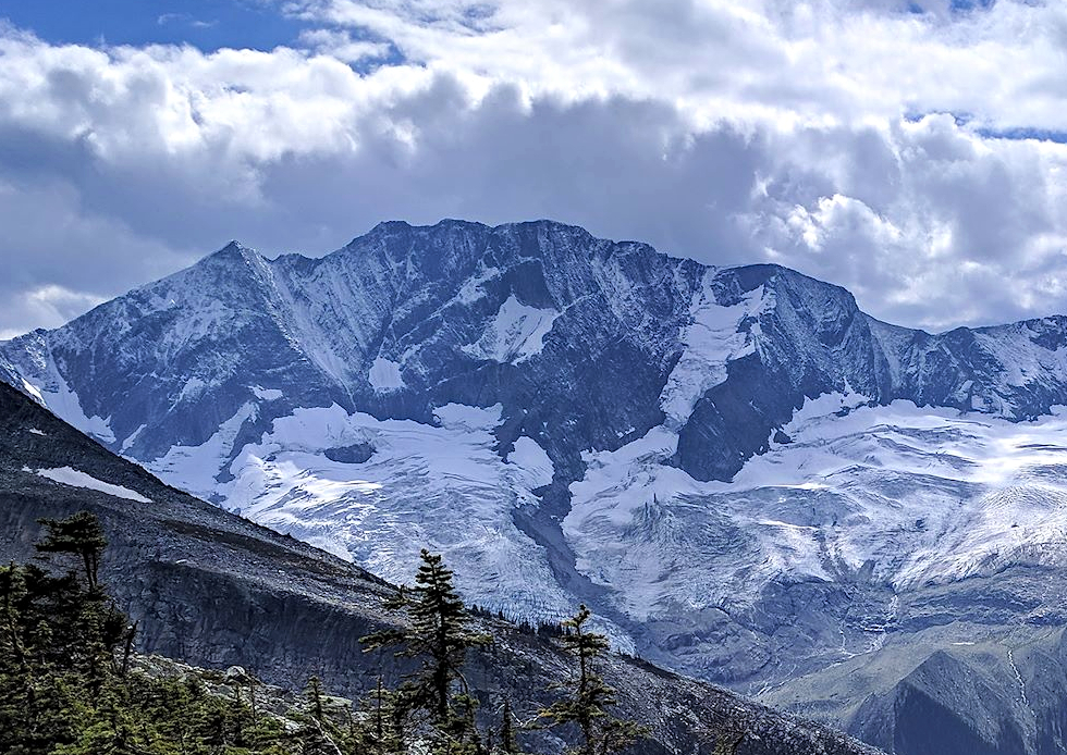 Mount Bonney seen from Abbott Ridge